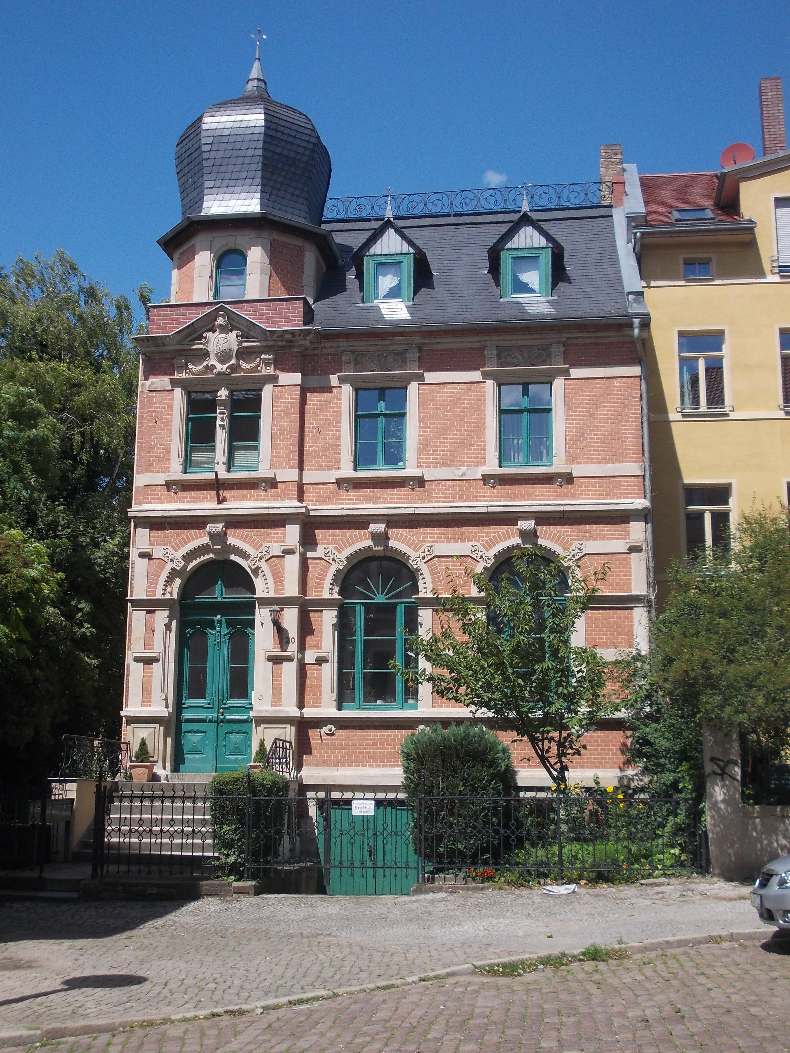 No. 20, Jägerplatz in Halle/Saale (Saxony-Anhalt)